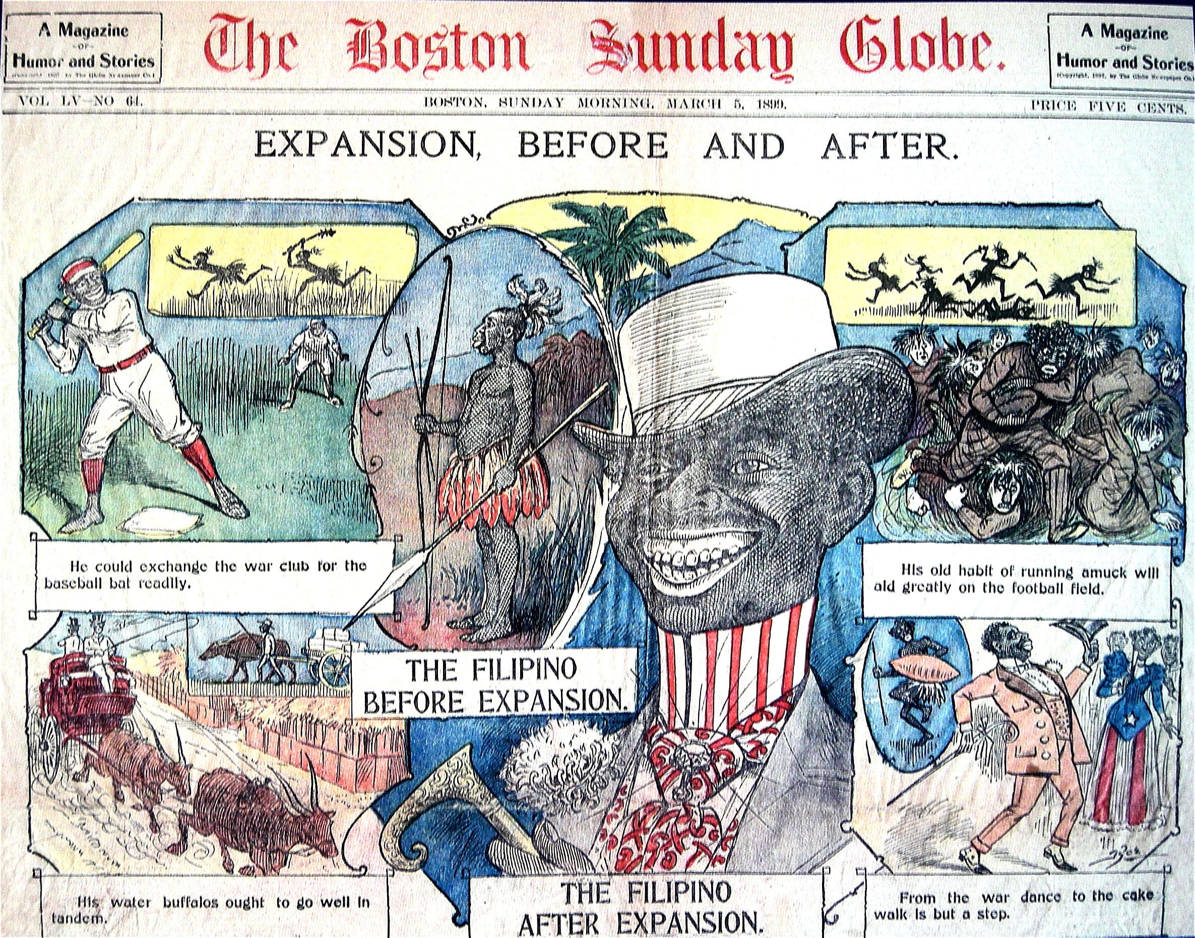 A newspaper clipping from the Boston Sunday Globe depicting a Filipino blackface before and after the transfer of sovereignty of the Philippines from Spain to the United States. The clipping portrays the transformation of the Filipino from being "barbaric" to a "civilized man".